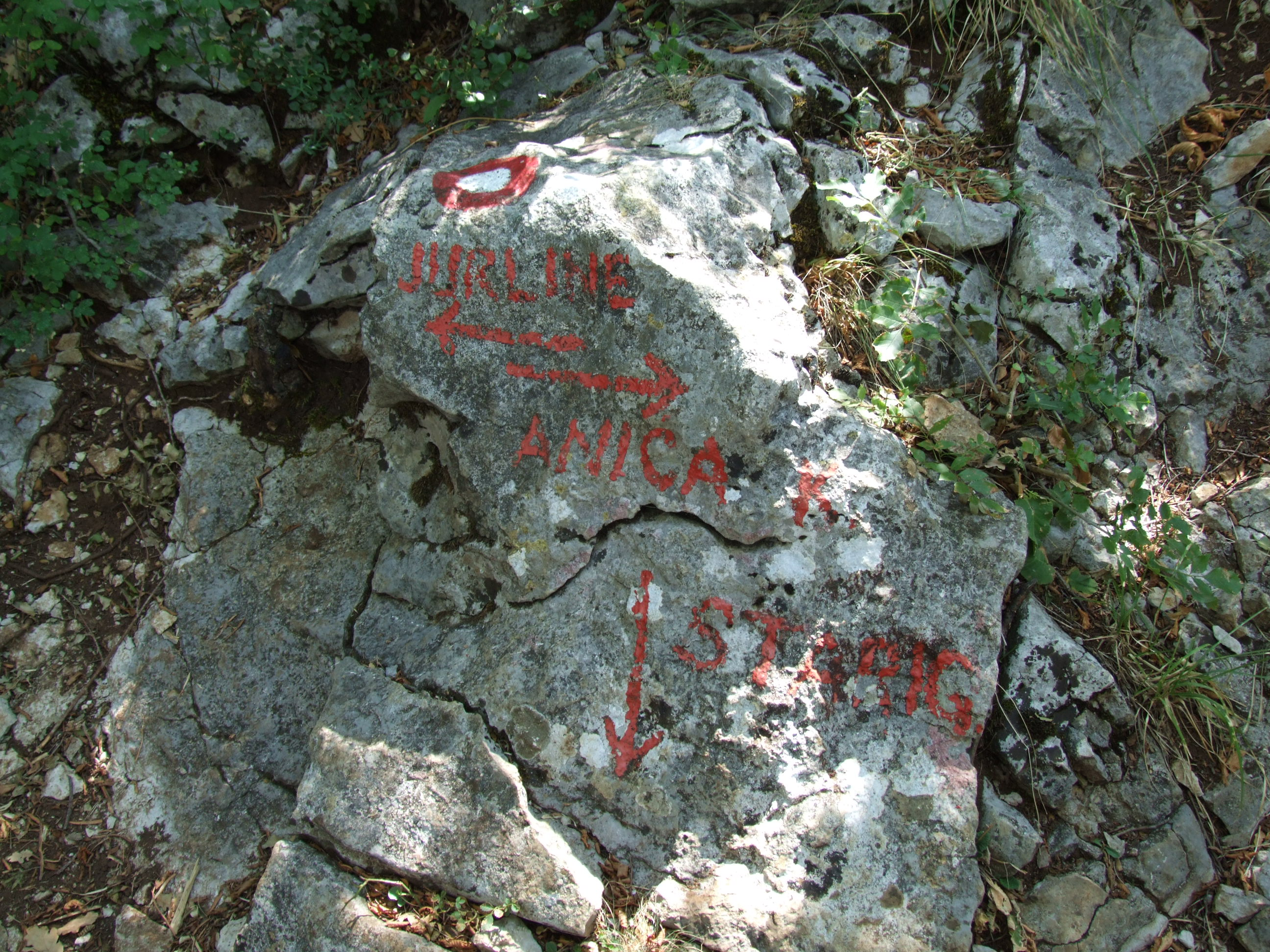 Footpath sign in NP Paklenica, Croatia